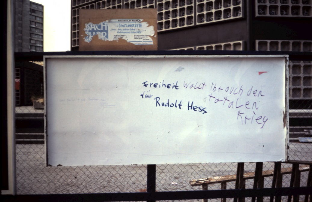 A hoarding outside Kaiser Wilhelm Memorial Church in West Berlin in July 1981 bears an exchange between a campaigner for Rudolf Hess's release from Spandau Prison ("Freiheit für Rudolf Hess") and a campaign opponent ("Wollt ihr auch den totalen Krieg?").